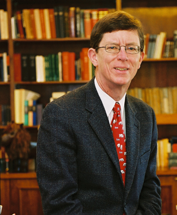 James J. O'Donnell : classical scholar and University Librarian at Arizona State University.